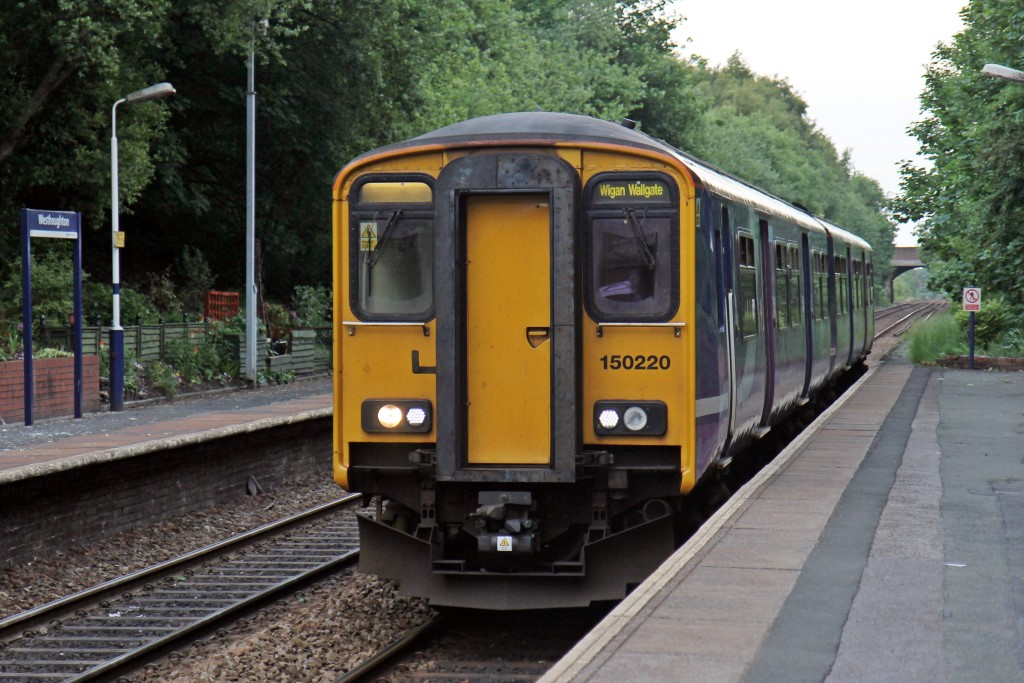 Northern Rail Class 150, 150220, Westhoughton railway station